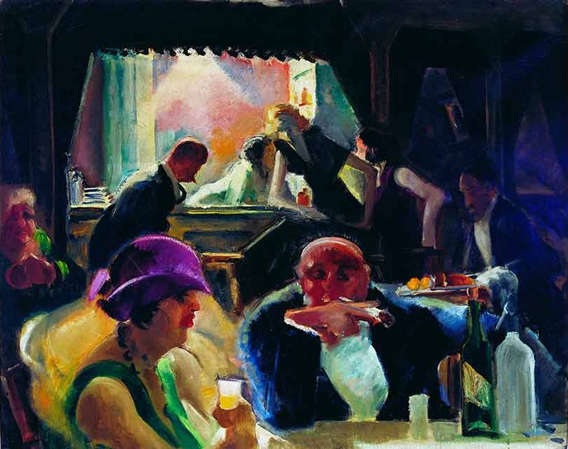 Coffeehouse Scene by István Farkas, c. 1922, King Saint Stephen Museum